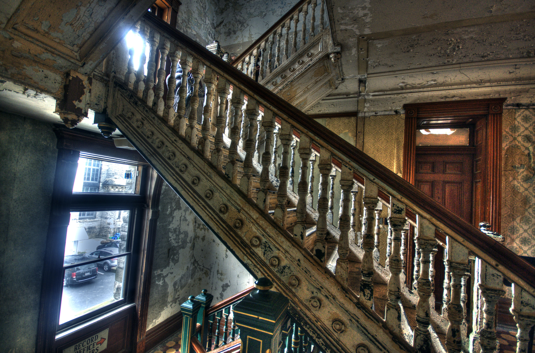 The Ohio State Reformatory, also known as the Mansfield Reformatory, is a historic prison located in Mansfield, Ohio in the United States,where the 1994 film The Shawshank Redemption was shot.